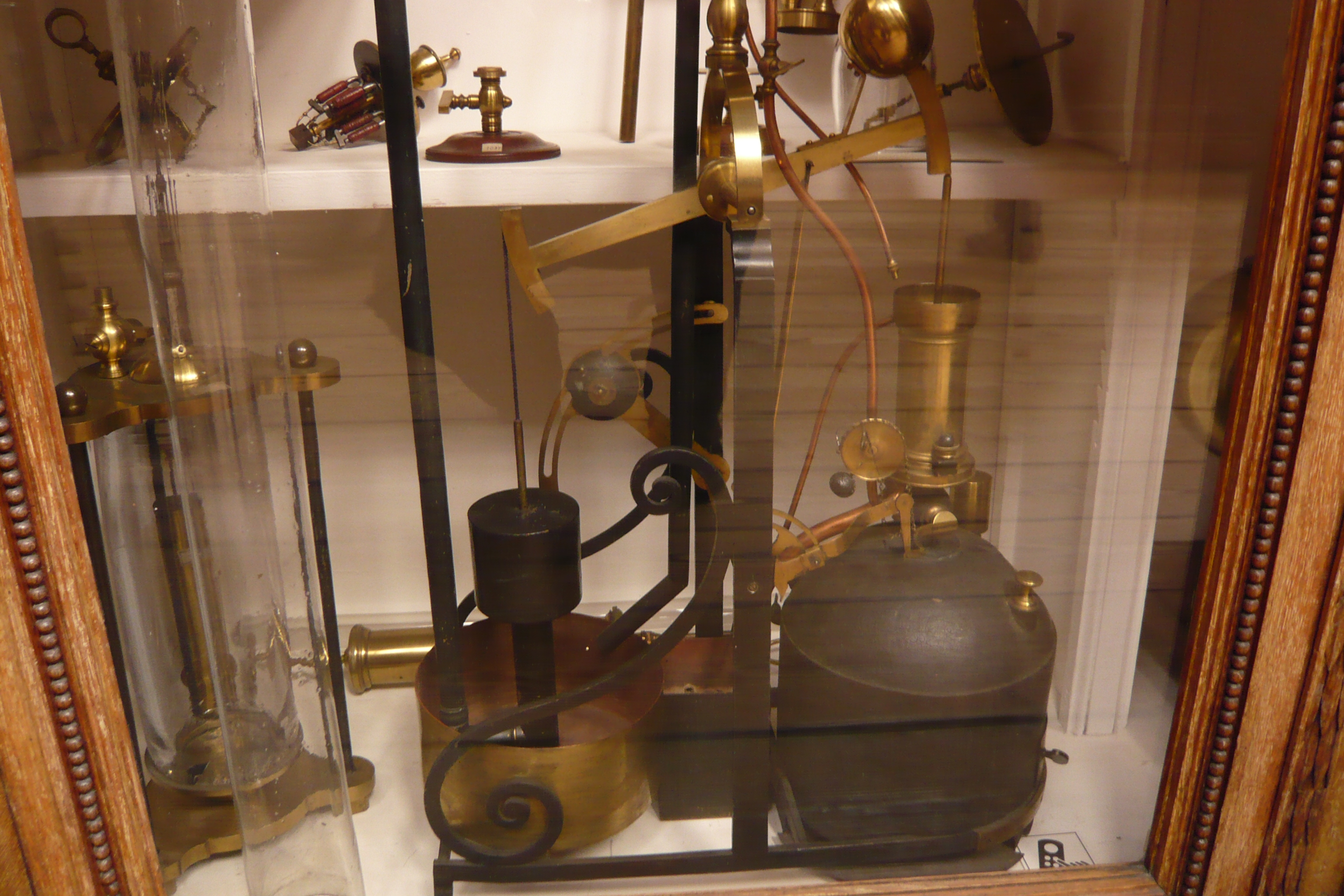 Photo of instruments in Teyler's Oval Room, Teylers Museum, Spaarne, Haarlem Thomas Newcomen steam engine (1702 model), built by Edward Nairne around 1770, purchased by the Teylers Museum in 1839